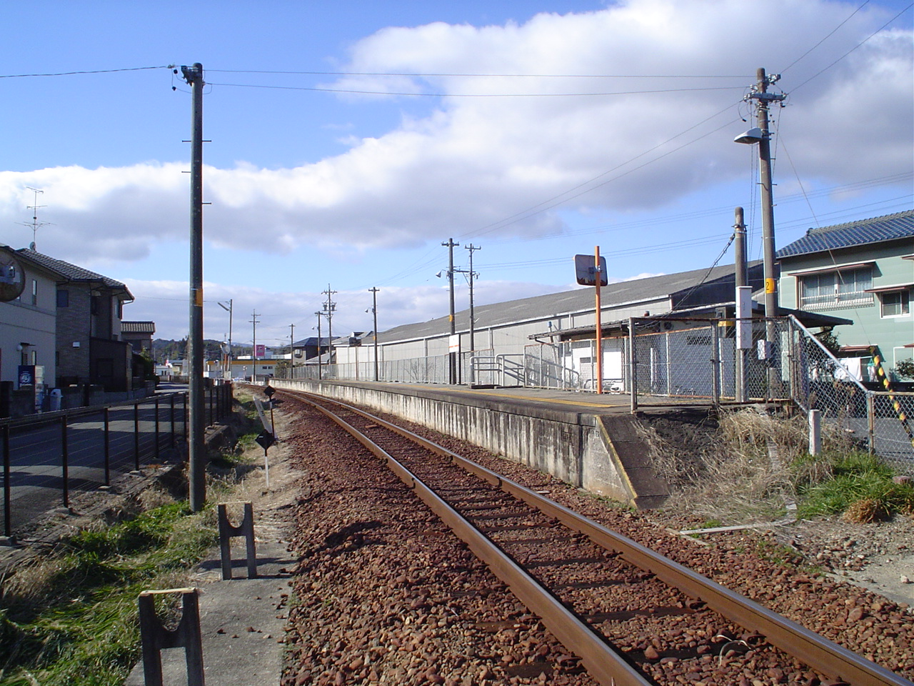 Ichishi Station in Mie pref, japan